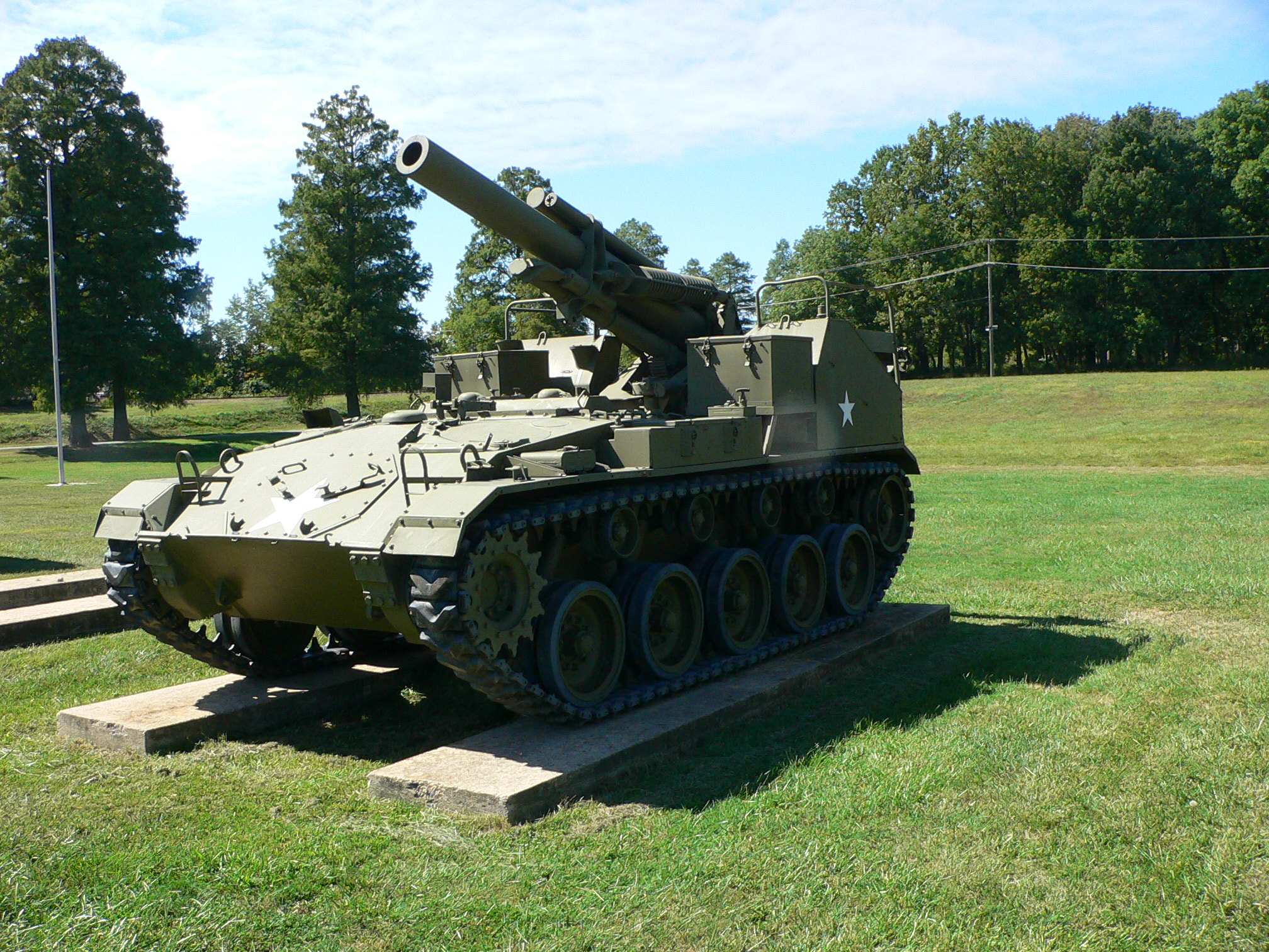 Picture taken by myself, Mark Pellegrini, at the United States Army Ordnance Museum (Aberdeen Proving Ground, MD)